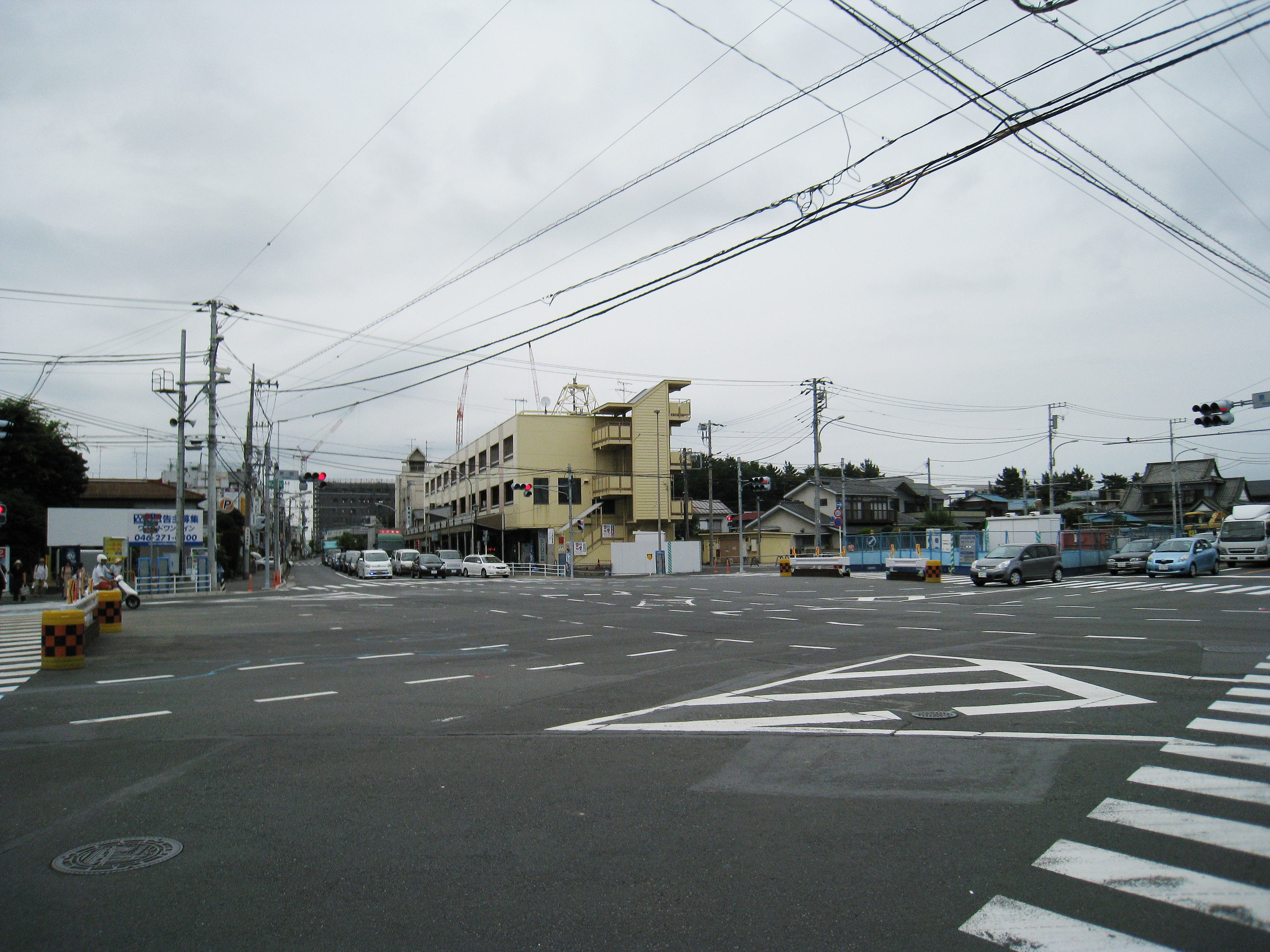 route1. Harajuku-crossroad. Totsuka-ward. Yokohama-city,Kanagawa-pref,Japan